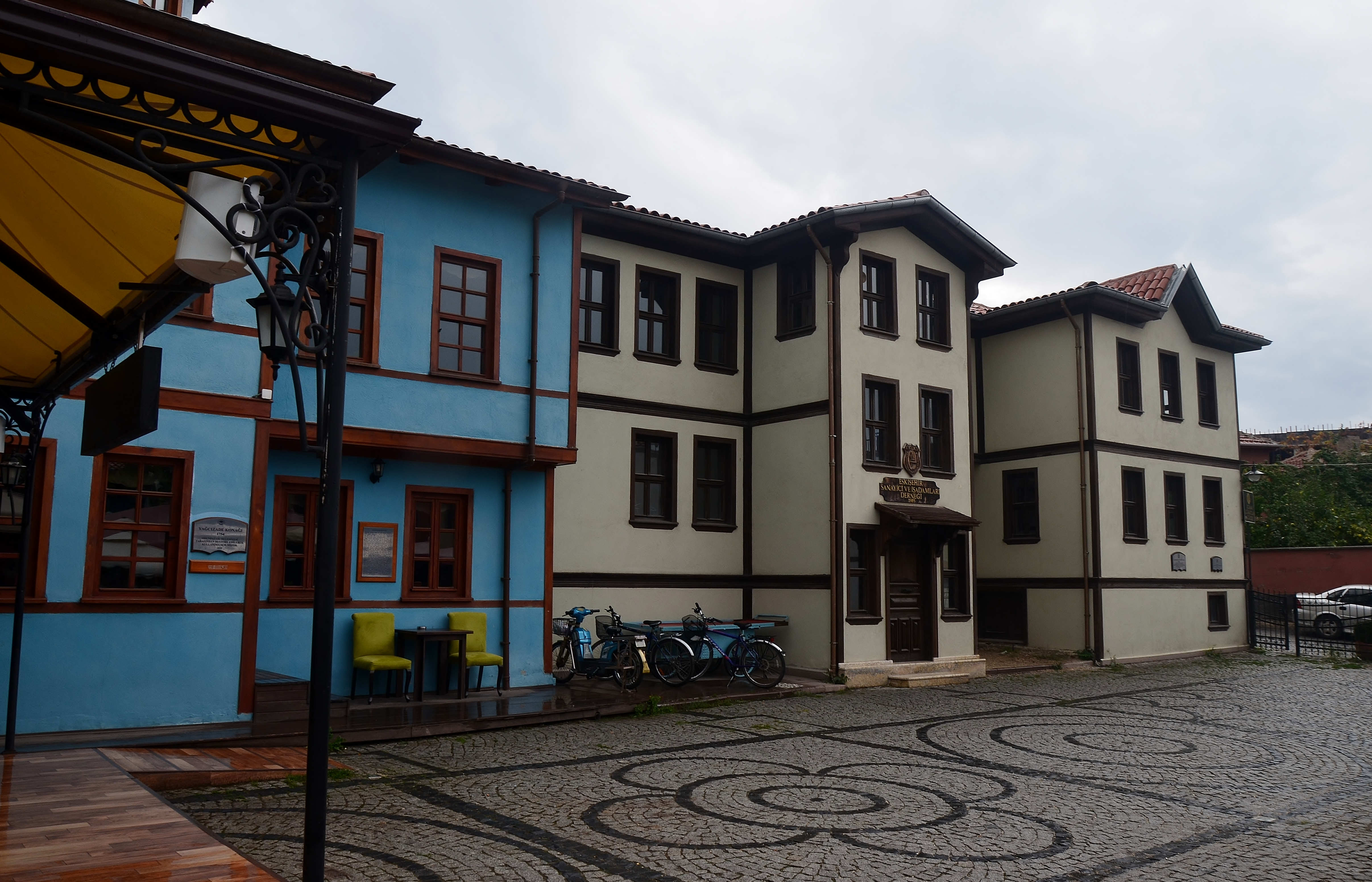 Odunpazarı in Eskişehir, Turkey